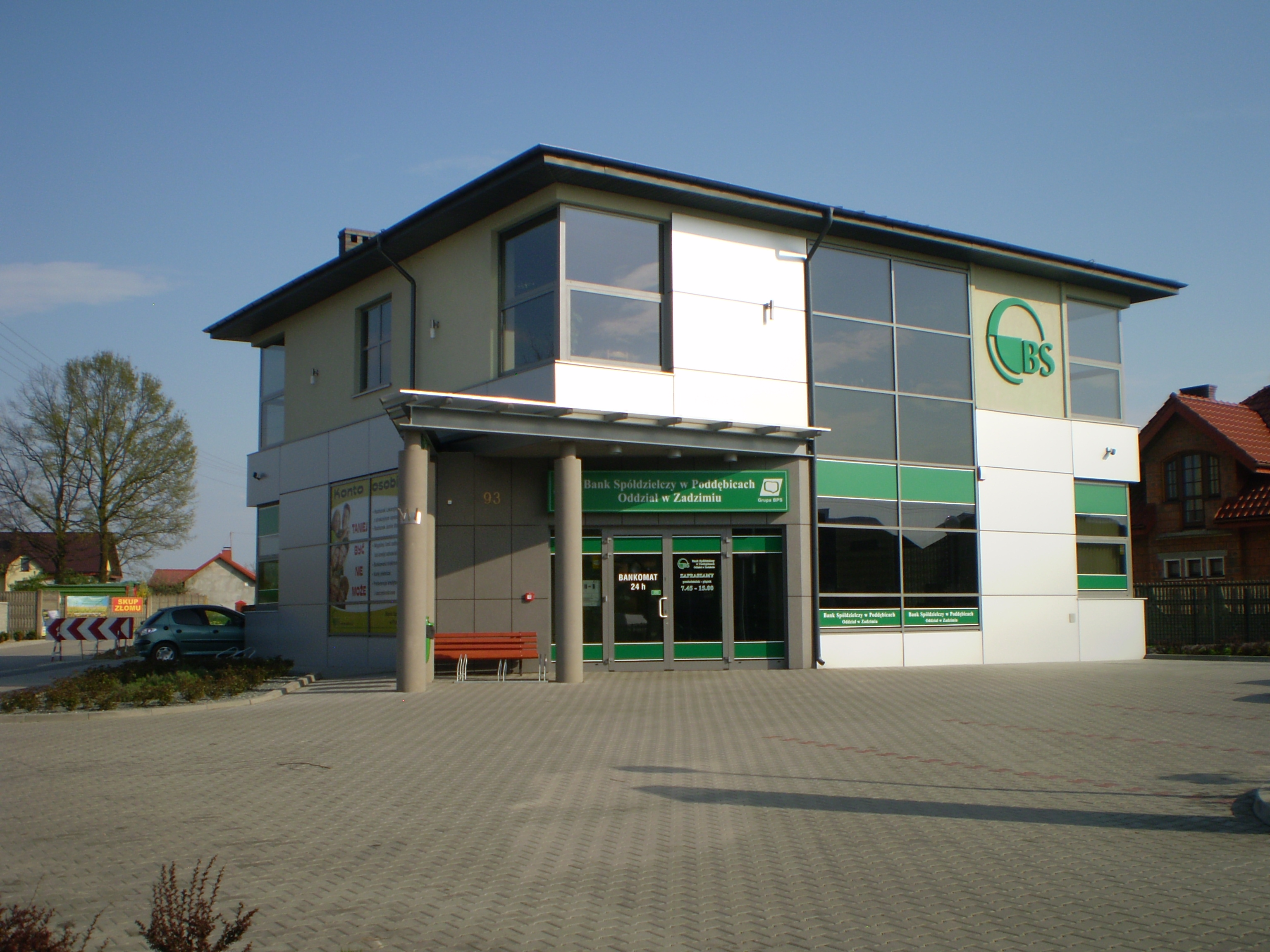 Zadzim